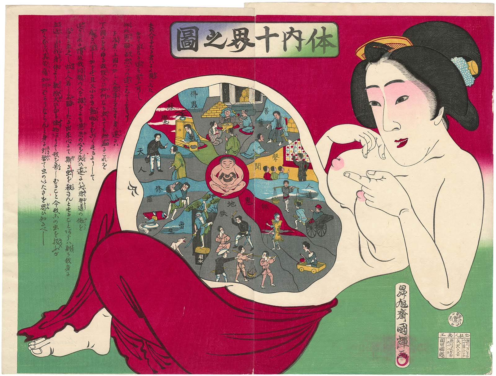 The Ten Worlds inside the Body, Woodblock print (nishiki-e); ink and color on paper